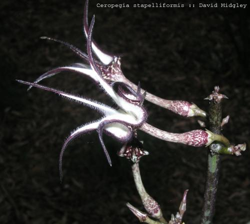 David Midgley